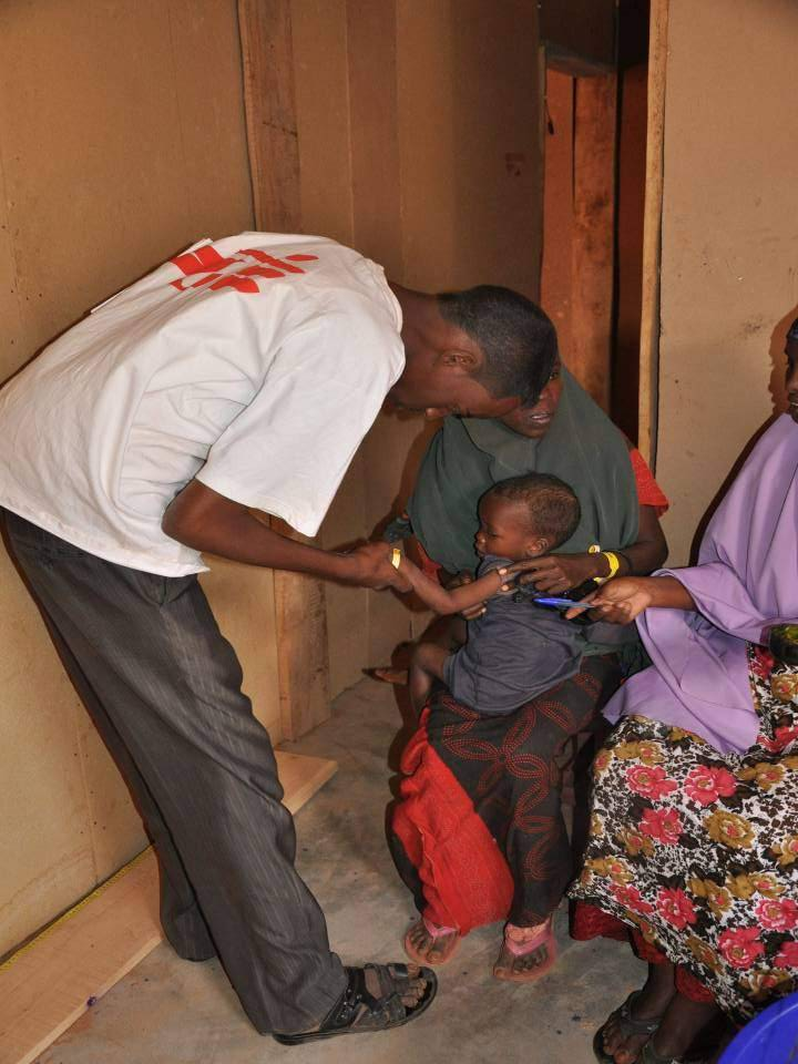 Medecins Sans Frontieres Spain (MSF, Doctors Without Borders) – an independent, humanitarian medical aid organisation – has opened an emergency health centre at the Dolo Ado camp and has been given permission to screen all children for malnutrition on arrival. Almost 50% of children arriving recently have been found to be suffering from acute malnutrition. To find out more about how the UK is helping in Dolo Ado, and elsewhere across Ethiopia, Somalia and Kenya, visit: Image: Cate Turton/Department for International Development Terms of use This image is posted under a Creative Commons - Attribution Licence , in accordance with the Open Government Licence . You are free to embed, download or otherwise re-use it, as long as you credit the source as 'Cate Turton / Department for International Development'.